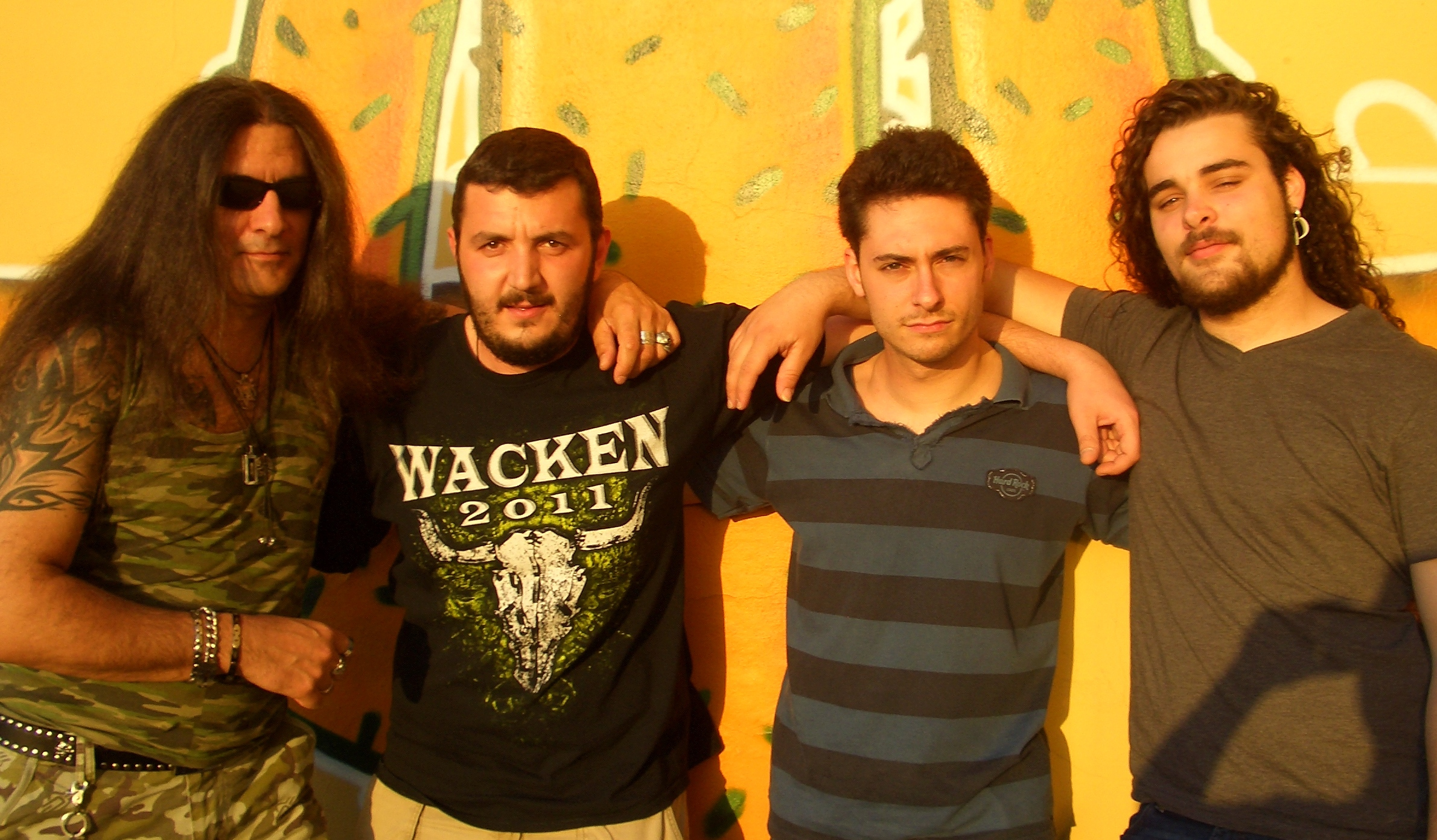 Dimmi Argus befote the show in the club "Carlito's way" - Retorbido, Italy.